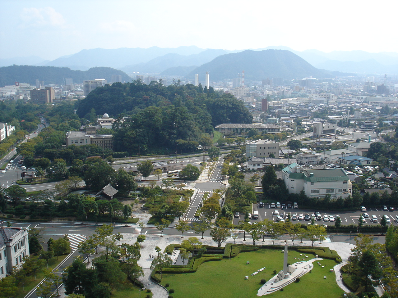 Skyline of Yamaguchi, Yamaguchi, viewed from the prefectural government building.